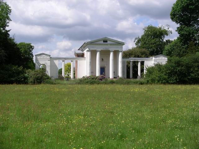 The new Palladian-style Church in Ayot St Lawrence, taken in May 2004 by Stephen Penney. )